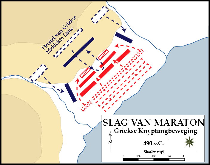 Depiction of the double envelopment of the Persian forces at the Battle of Marathon.